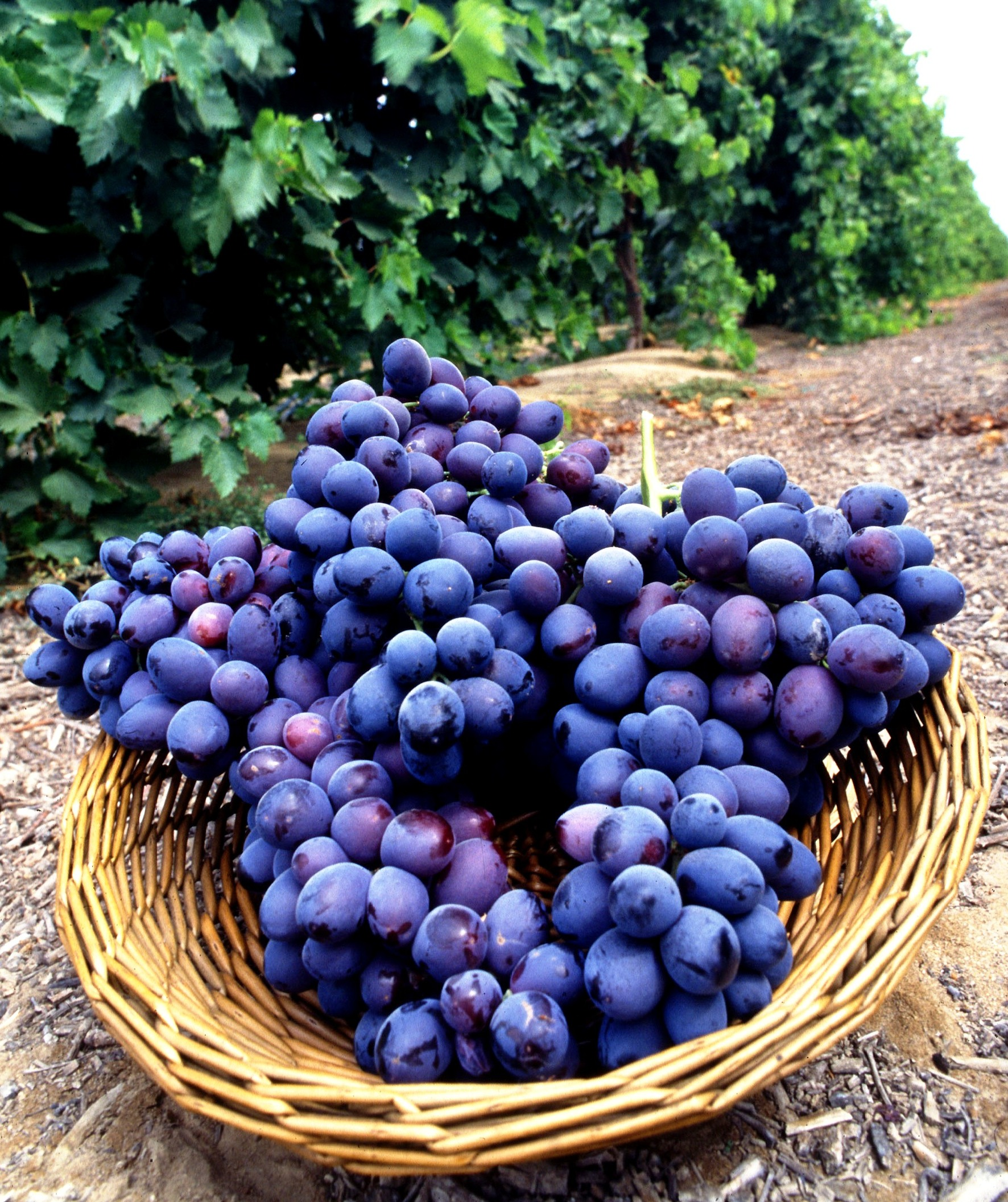 Autumn Royal, a new seedless grape.